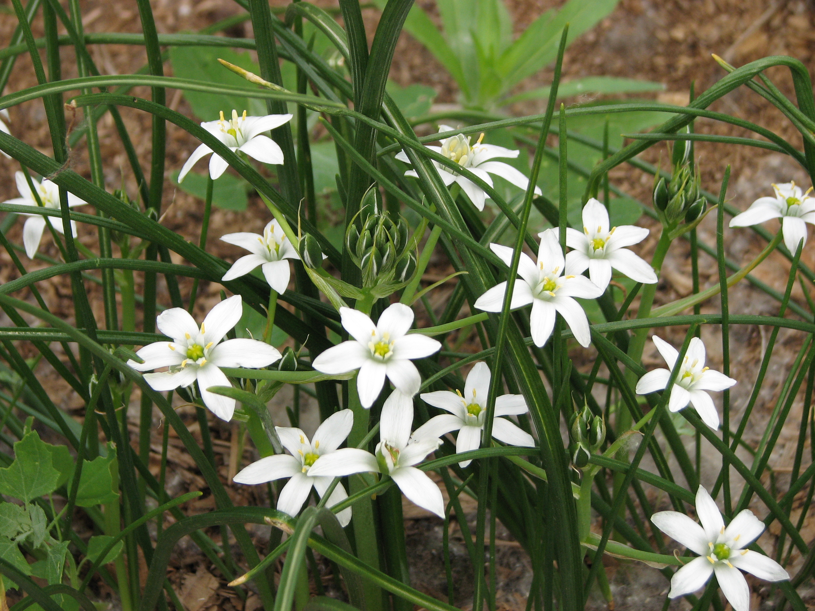 Ornithogalum umbellatuma. From the collection of the Main Botanical Garden of Academy of Sciences in Moscow (perennials plot).